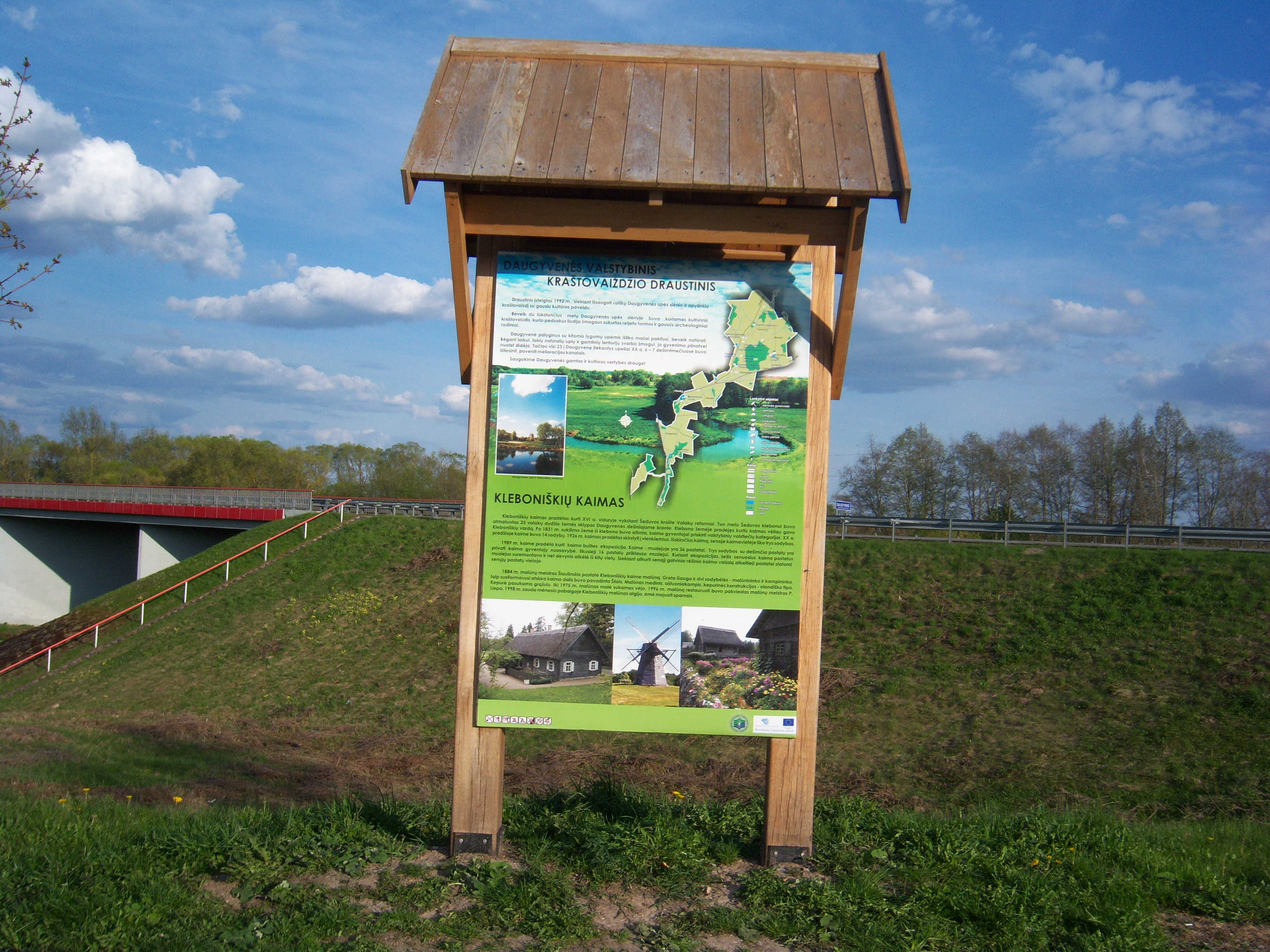 Protected area of Daugyvenė River landscape, Radviliškis District, Lithuania